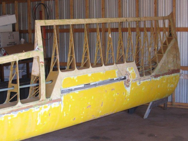 Right wing of a Schleicher K7 (C-GALN) in the process of being recovered. Aylesford, Nova Scotia, Canada.